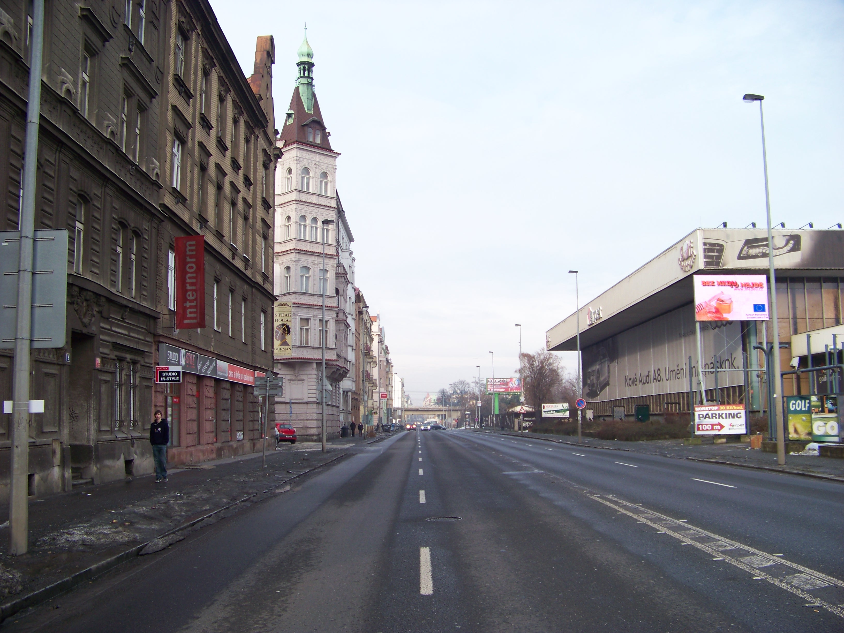 Prague-Smíchov, the Czech Republic. Strakonická street. - OpenStreetMap (Info)